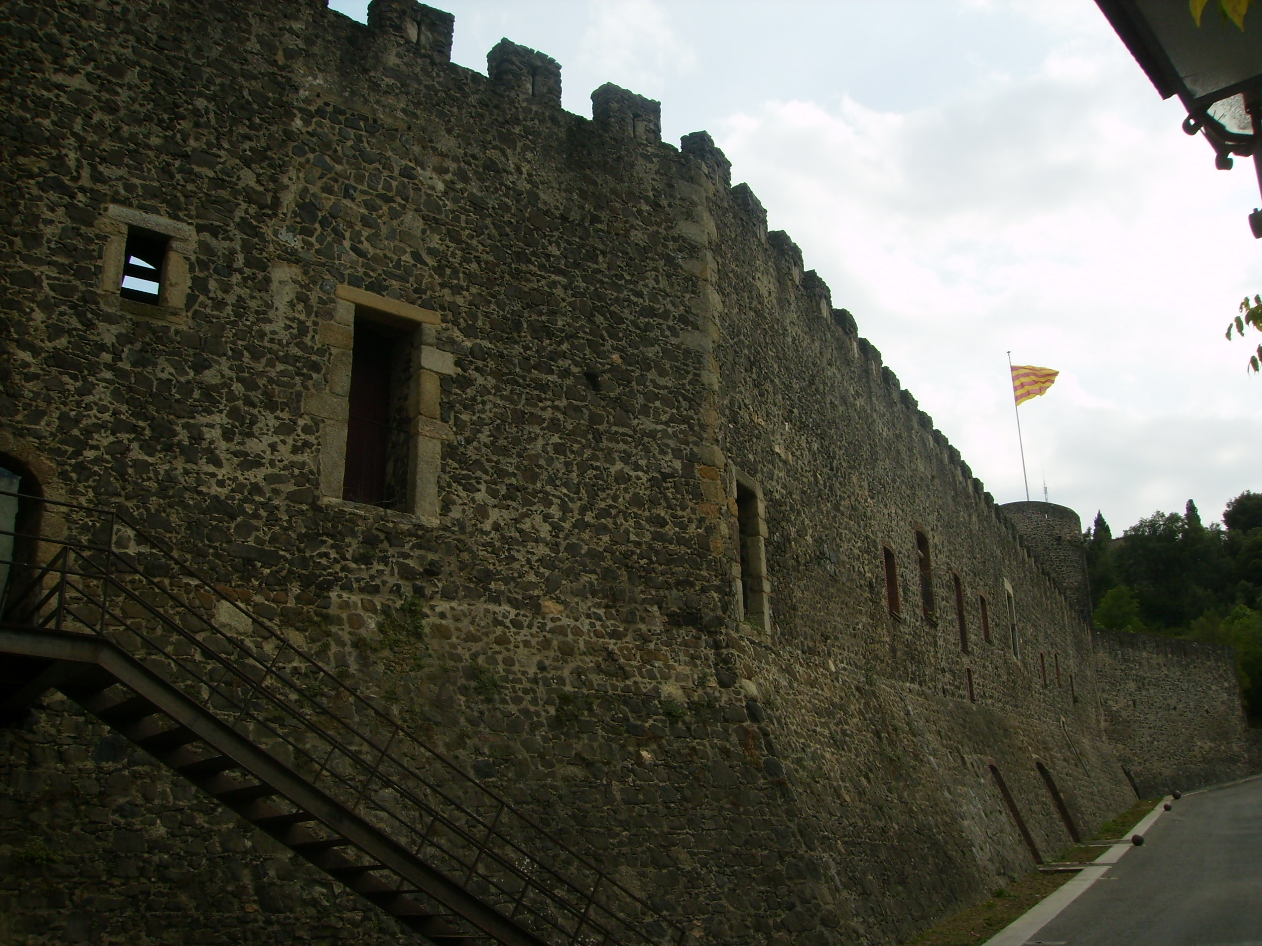 City wall in Hostalric, La Selva, Catalonia.